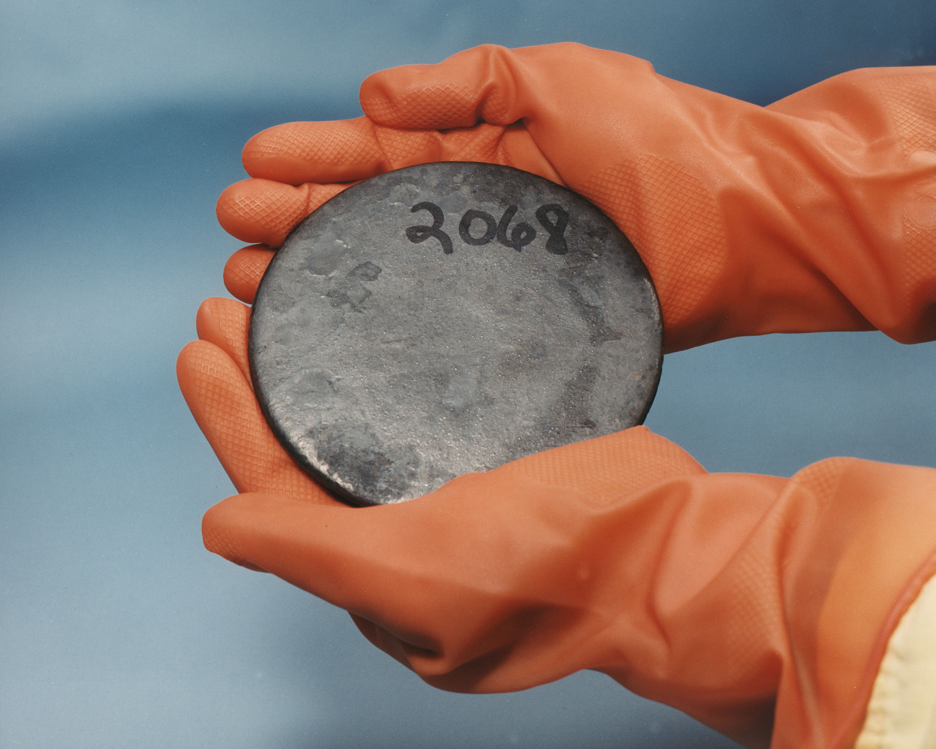 A billet of highly enriched uranium that was recovered from scrap processed at the Y-12 National Security Complex Plant.